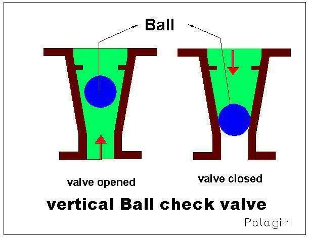 Vertical Ball check valve used in industries